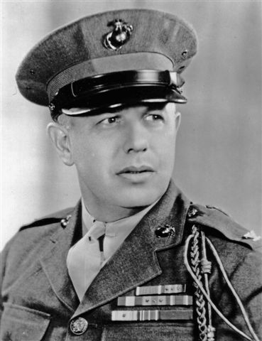 William A. Worton (January 4, 1897 – July 25, 1973), a Marine Corps Major General and Los Angeles Police Department police chief from June 1949 to 1950.